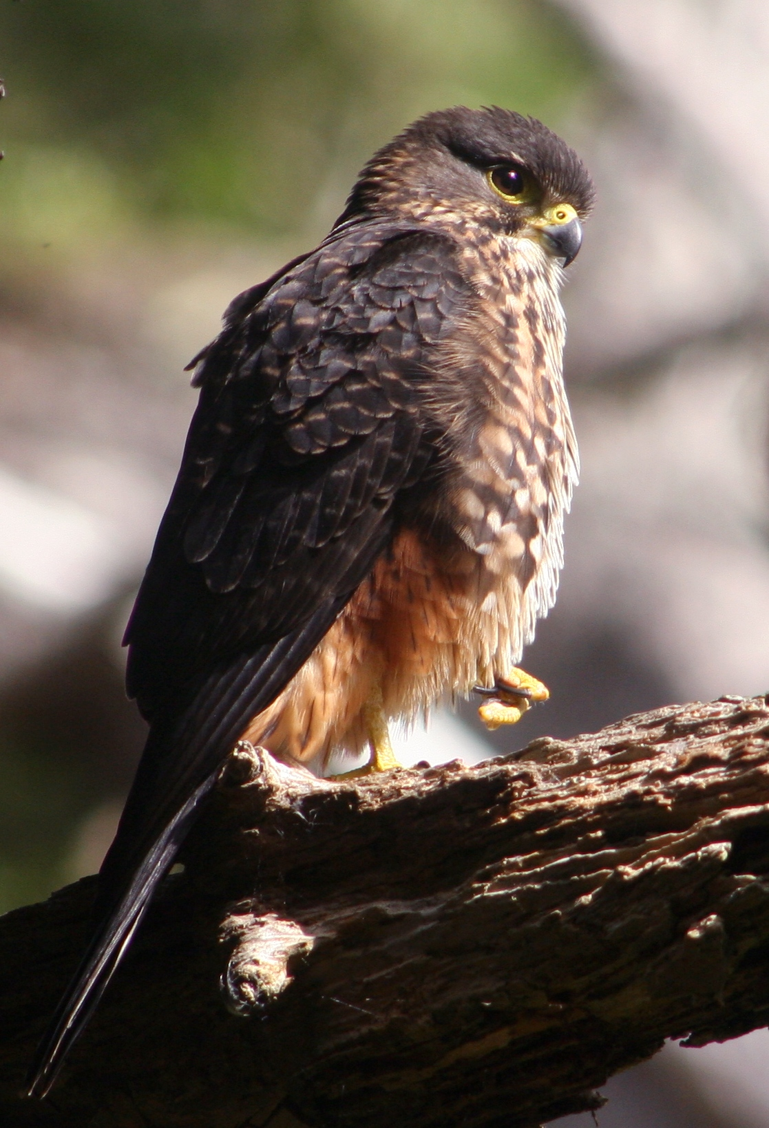 The New Zealand Falcon (male), Zealandia wildlife sanctuary. Wellington, New Zealand. Māori: Kārearea